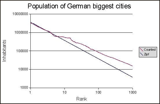 Example for Power law: distribution of population of biggest German cities. Zipf-law, compared with measured Distribution (logarithmic presentation) population : number of cities having at least that population Data source: see Image:Powercitiesrp.png